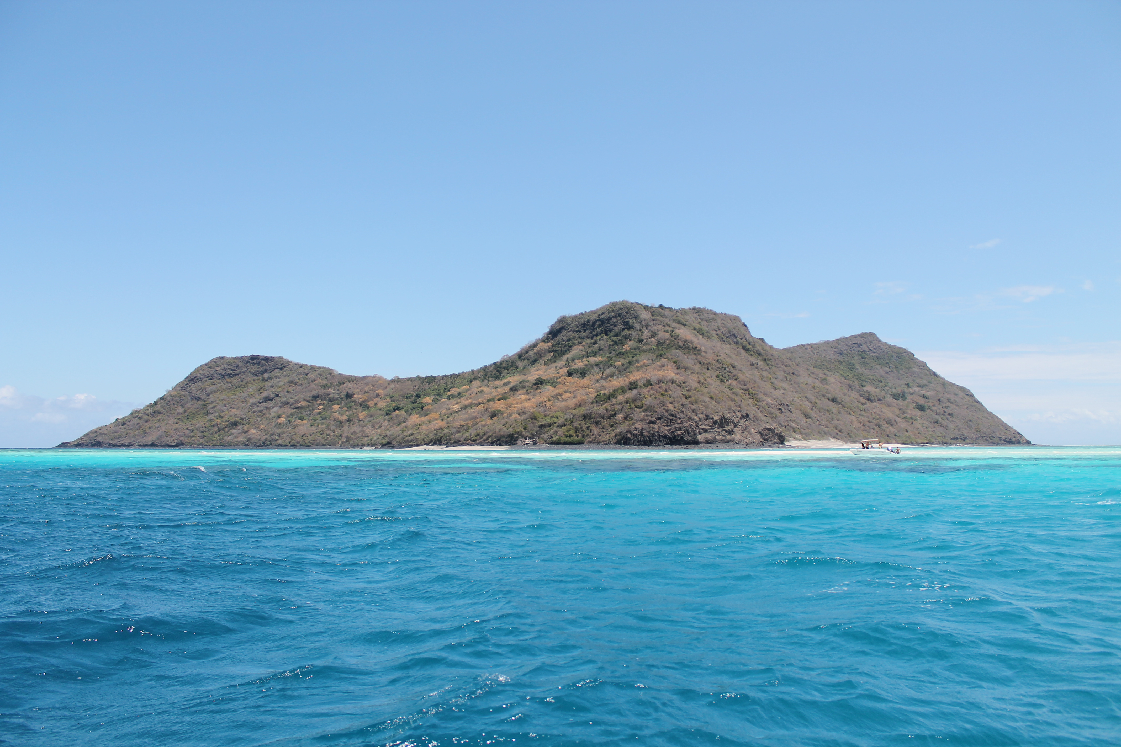 Mtsamboro island, september 2012